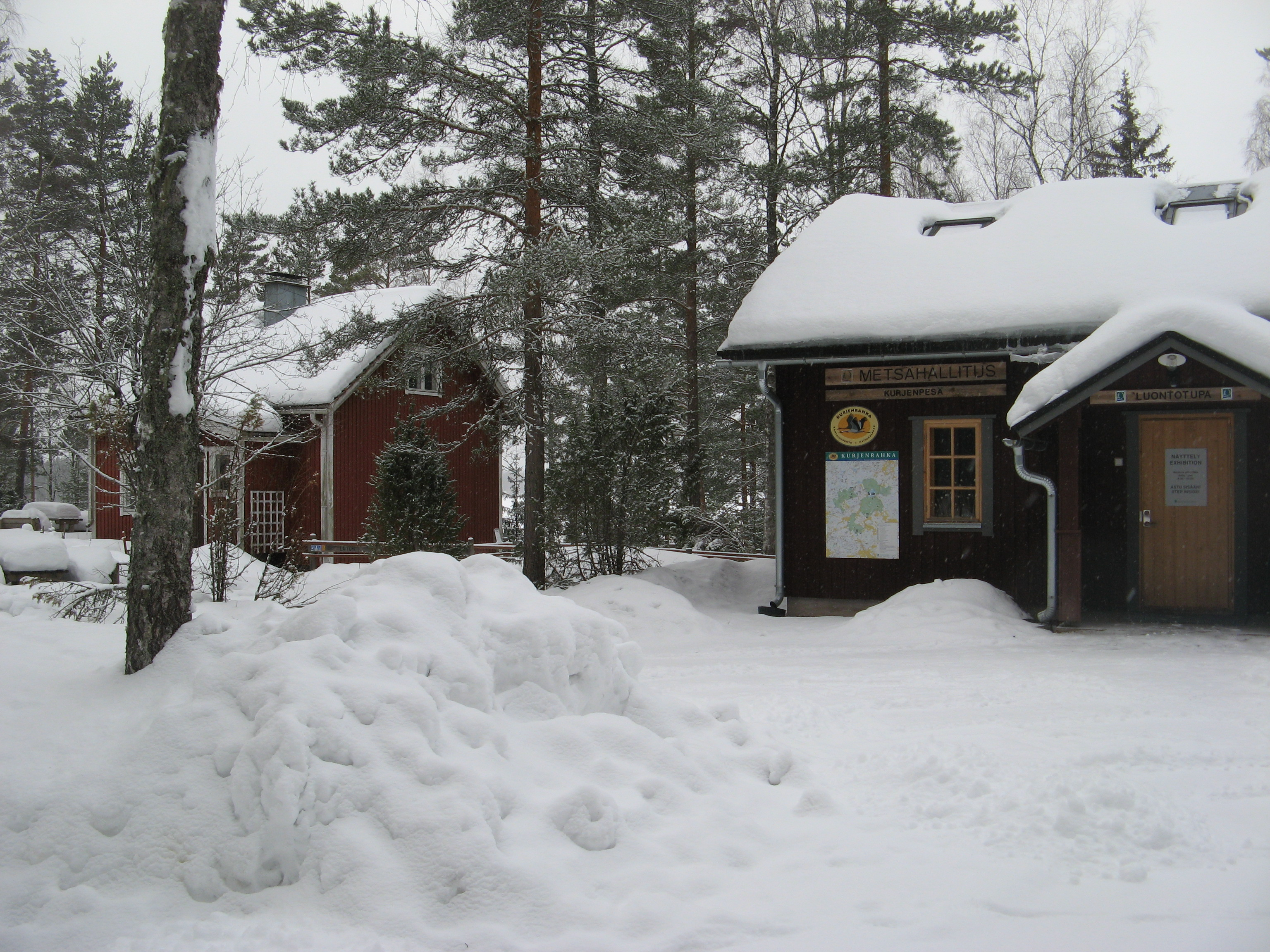 Information center Kurjenpesä ("Crane nest") and Kurkela in Kurjenrahka National Park in wintertime. Savojärvi lake in the background. Middle march 2010.